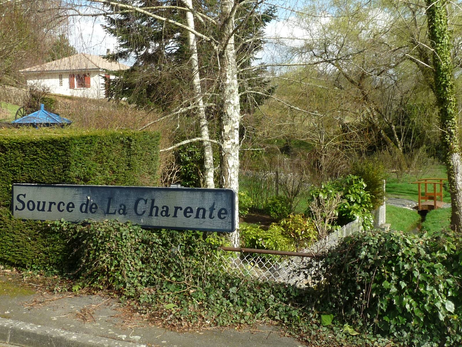 spring of the Charente river, Chéronnac, Haute-Vienne, France